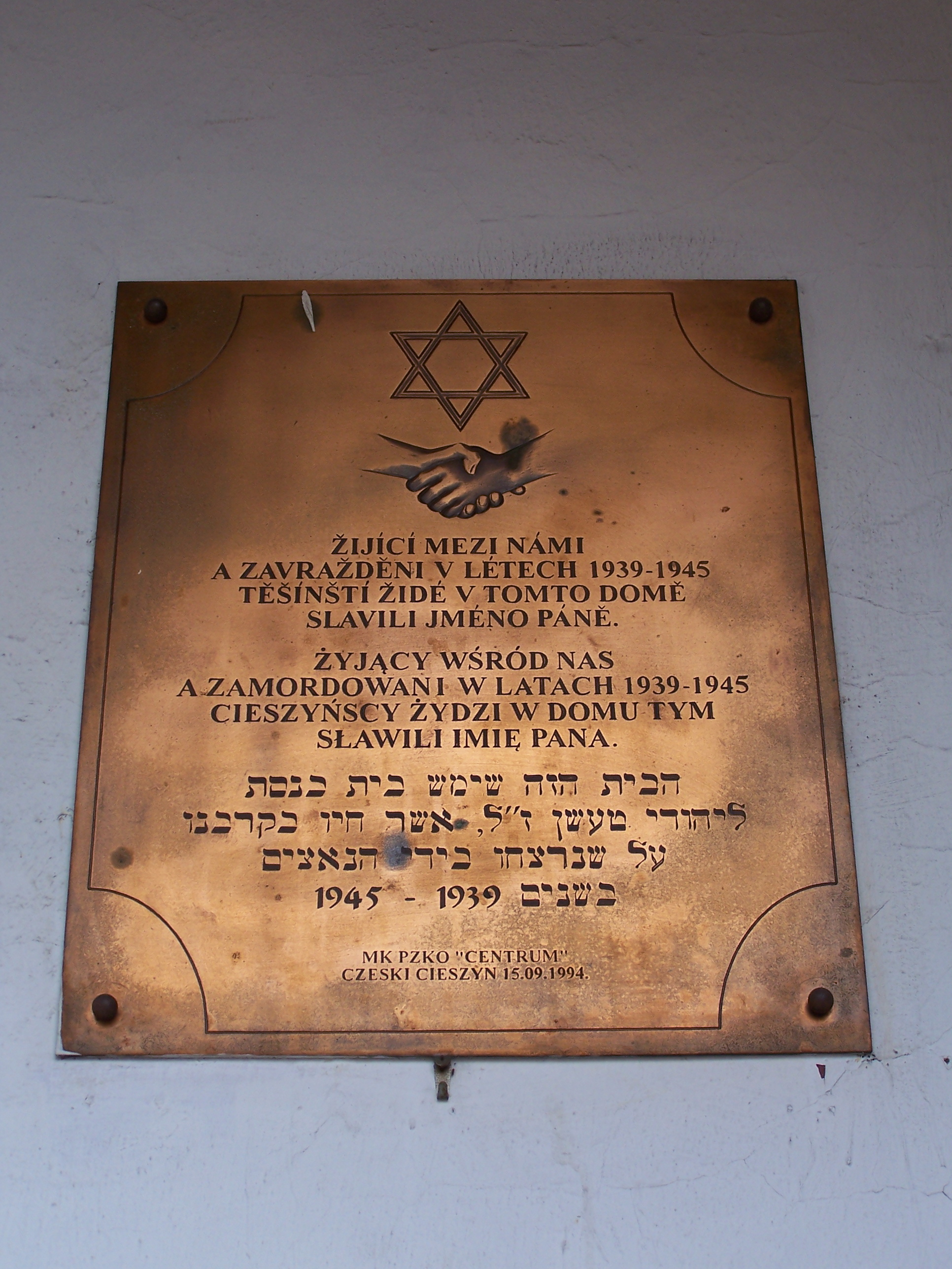 Memorial plaque to the Jews murdered by Nazis in 1939-1945 at the only existing synagogue in Český Těšín (Czeski Cieszyn). The building now houses the local PZKO (Polish Cultural and Educational Union) club.